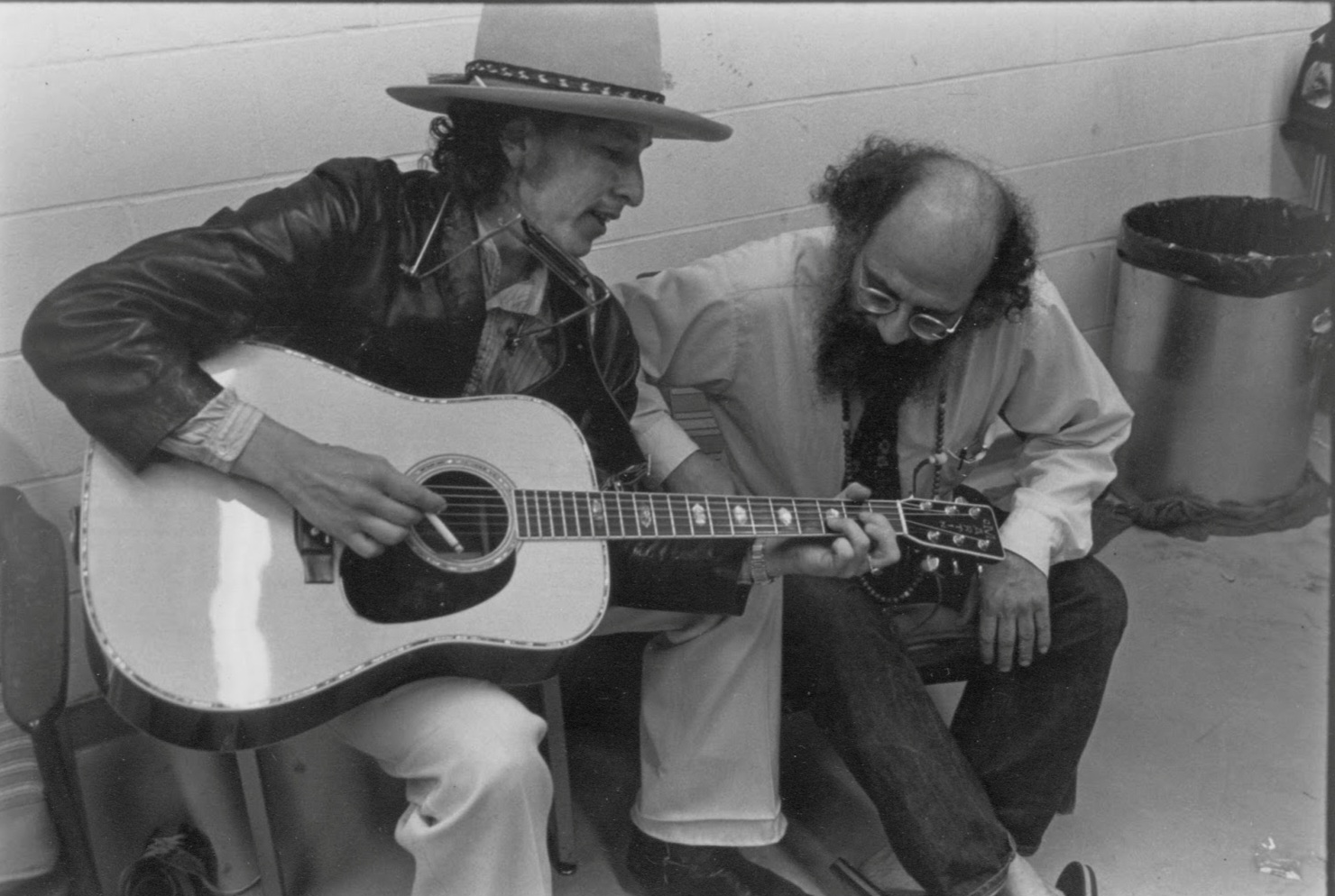 Depicted people: Allen Ginsberg and Bob Dylan